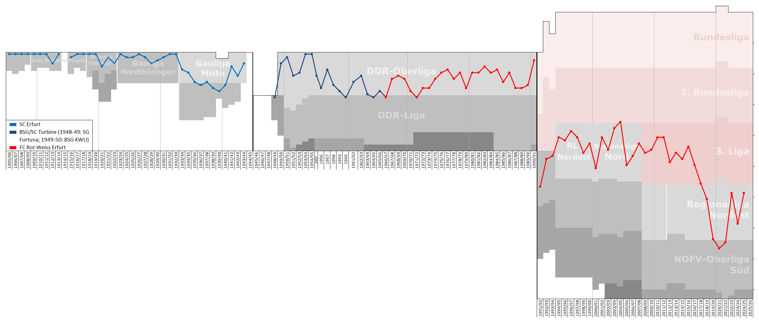 Chart of end-season table positions of Rot-Weiß Erfurt in the football league system of Germany and GDR. Data source: RSSSF, wikipedia, f-archiv.de, fussball.de